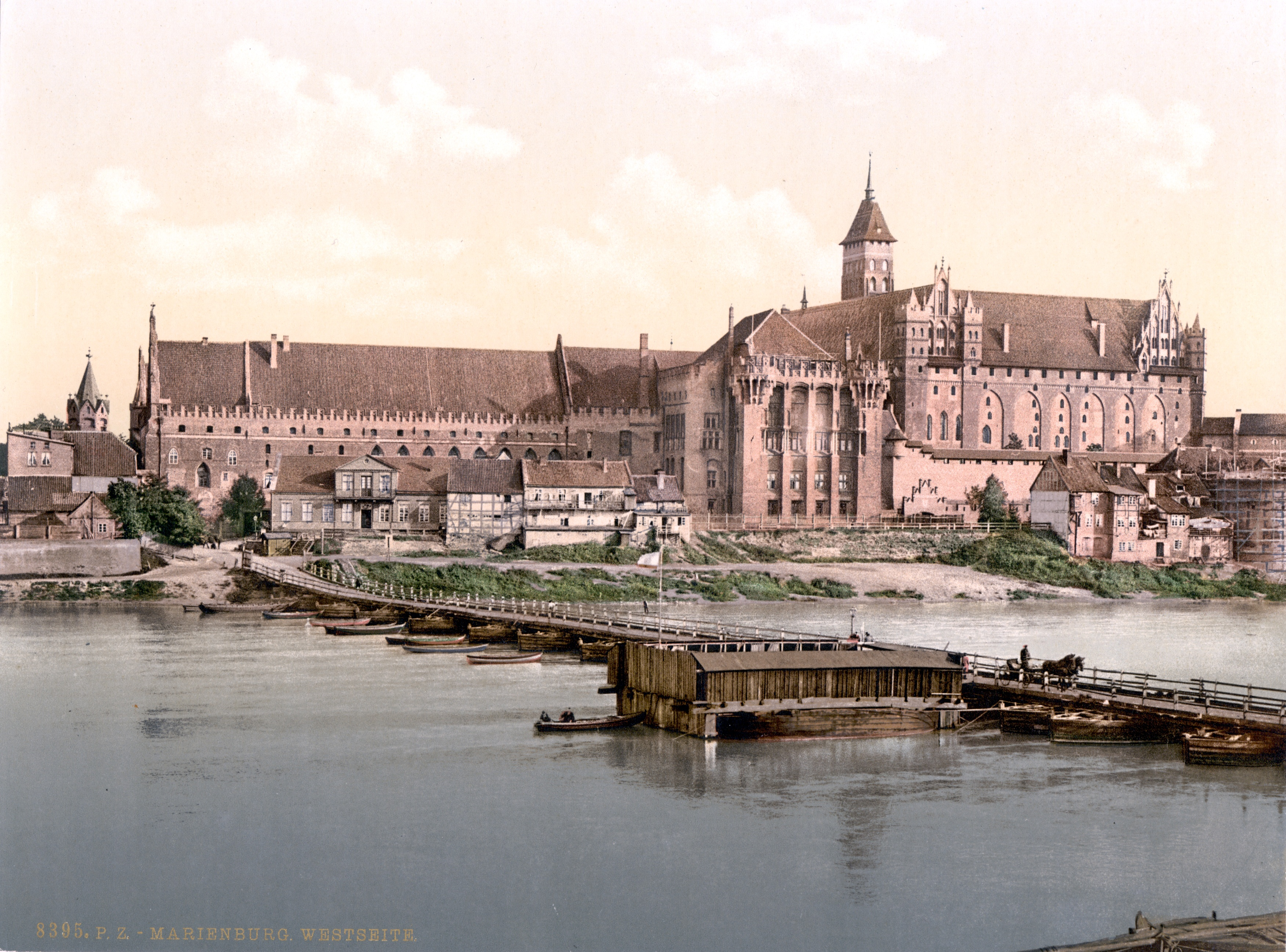 Castle Marienburg - west side